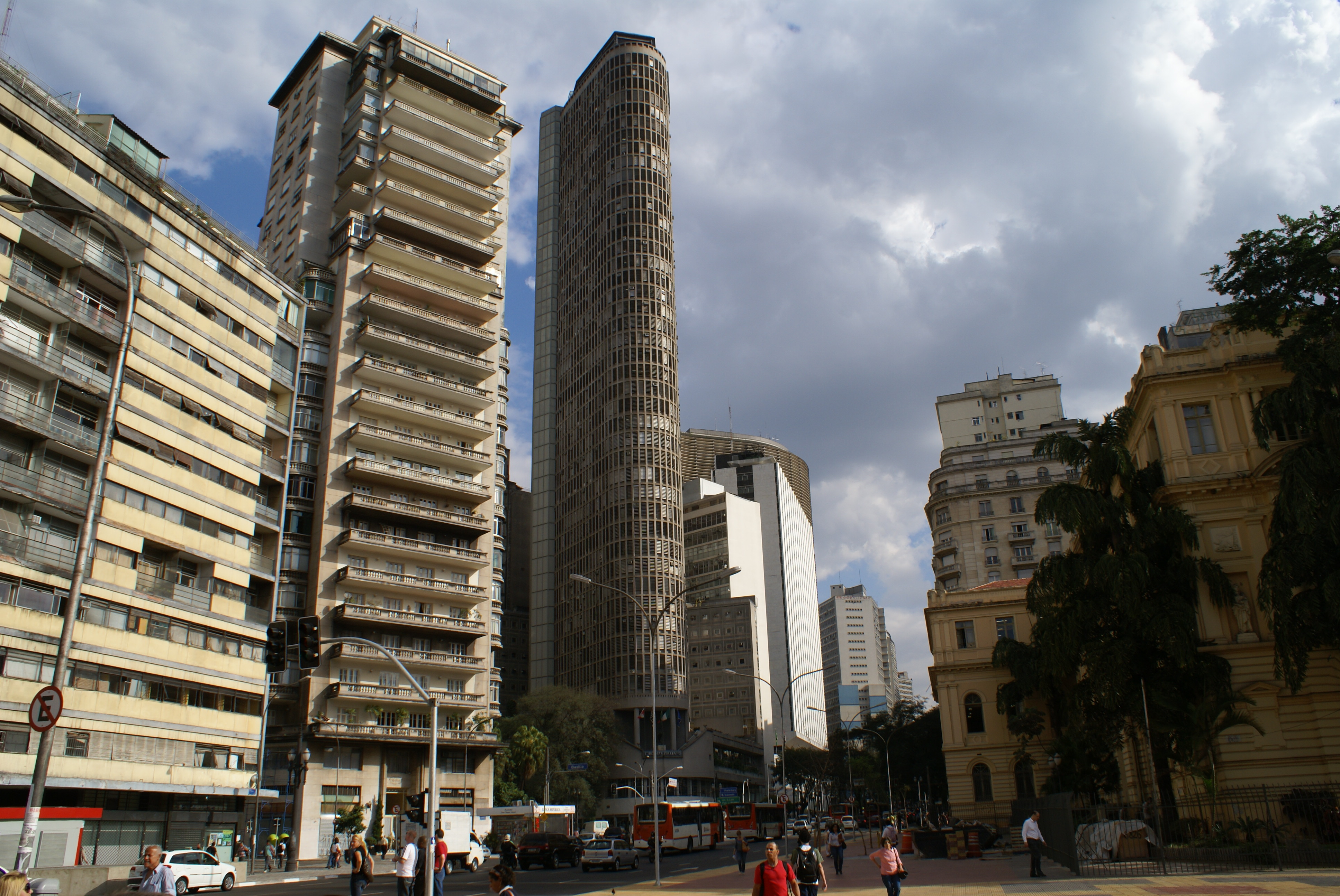 Skyline of República, district of Old Downtown's São Paulo City, Brazil.